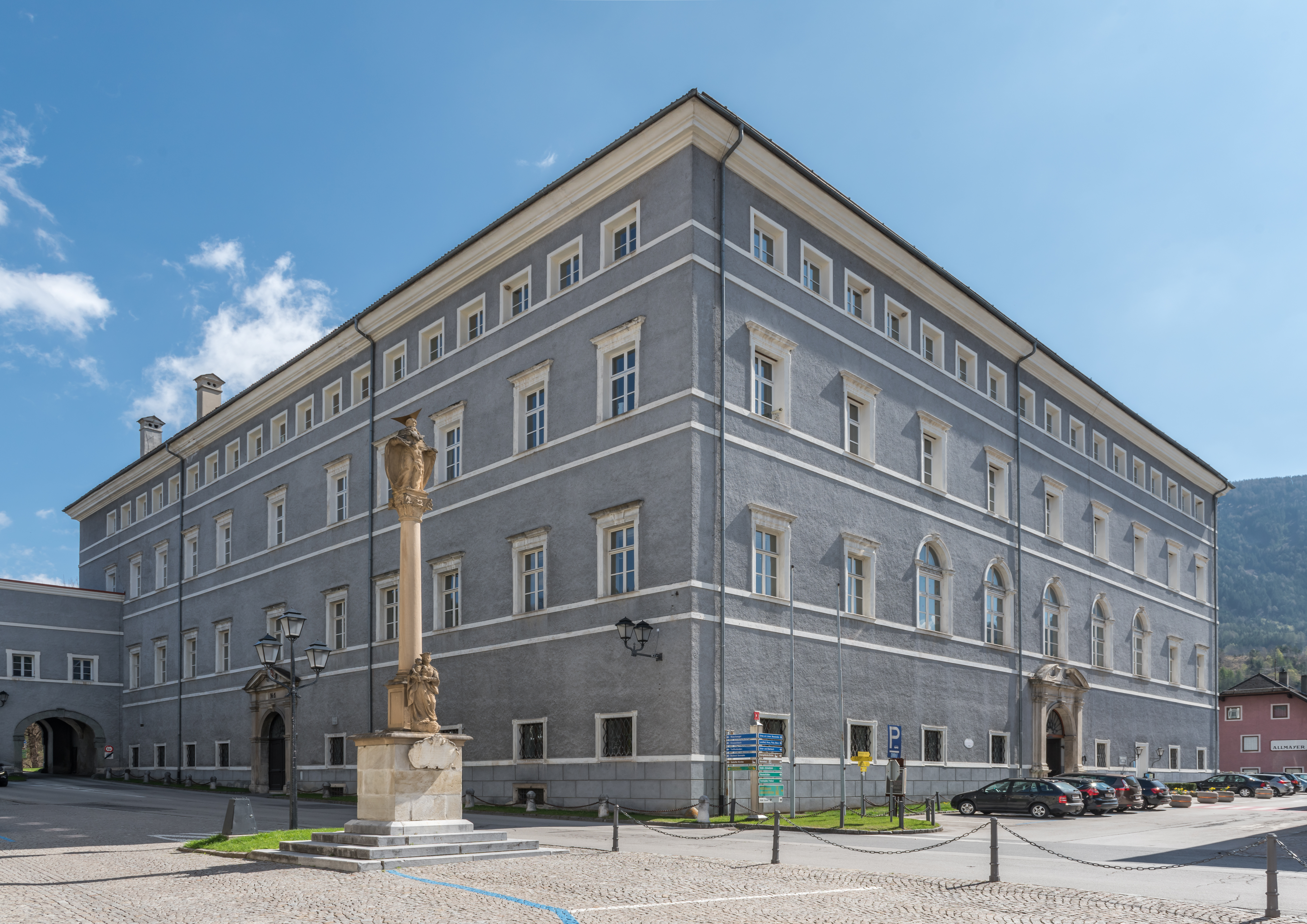 New Lodron Castle (northwestern view) on Hauptplatz #1, municipality Gmünd, district Spittal an der Drau, Carinthia, Austria, European Union